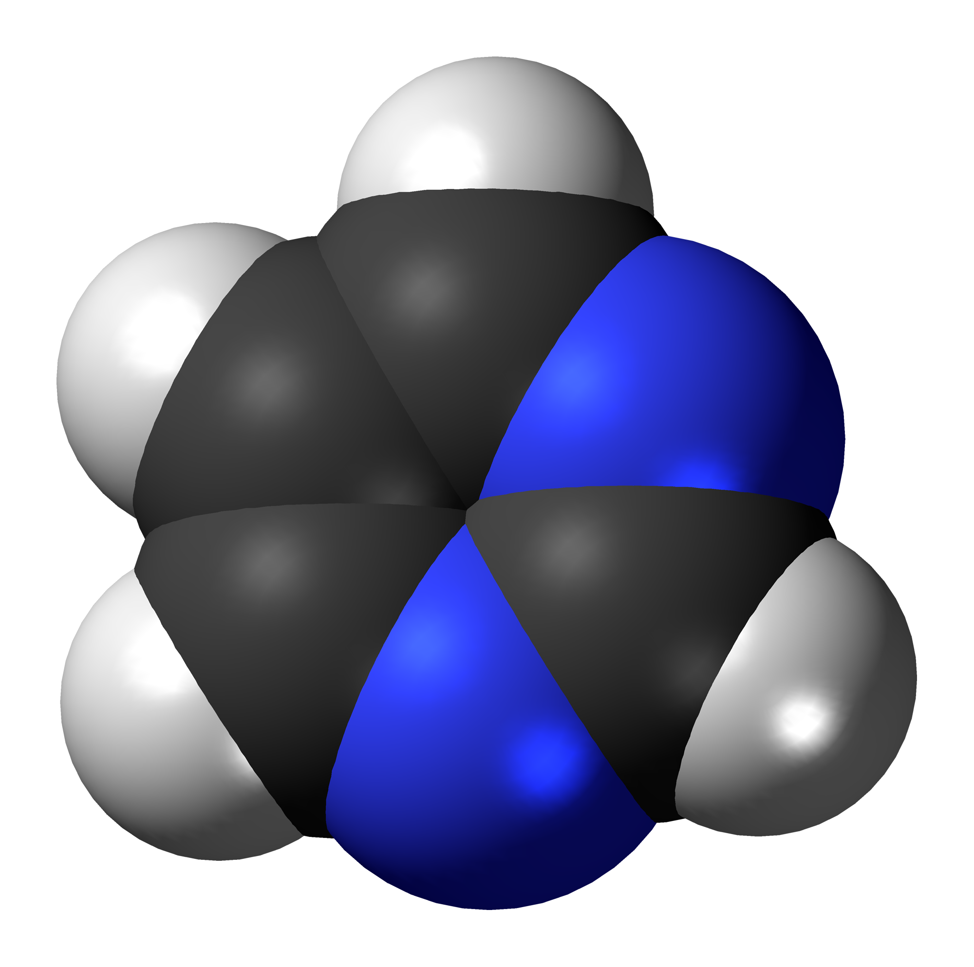 Space-filling model of the pyrimidine molecule, a nitrogen heterocycle and simple aromatic ring. Colour code: Carbon, C: black Hydrogen, H: white Nitrogen, N: blue